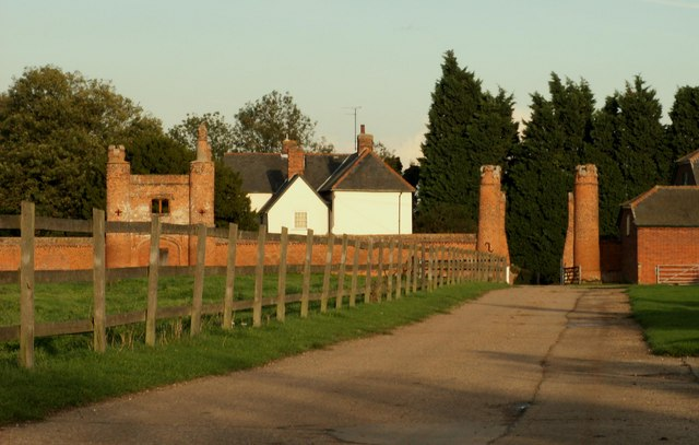 Beckingham Hall, Tolleshunt Major, Essex This is a view of the 16th century hall from Church Road.